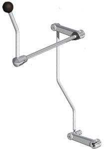 This is a generic suicide shifter used for a motorcycle. This one is made that a knob on the right of the bike will change gears on the left side shifter.